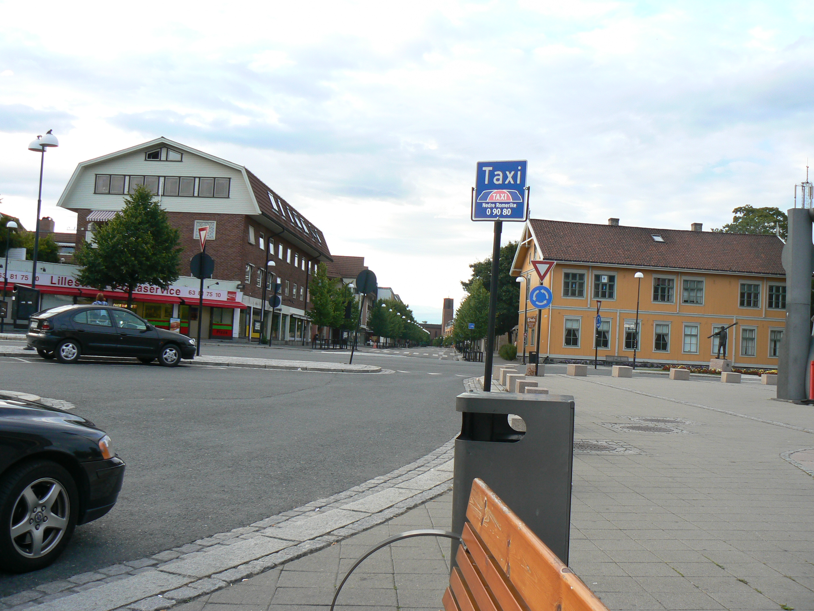 Street view from Lillestrøm, Norway